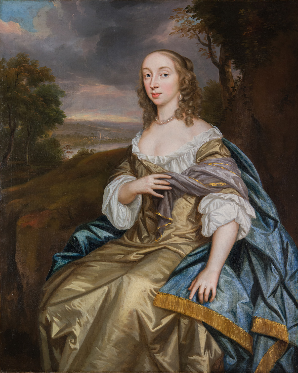 Portrait of Frances Vaughan, Countess of Carbery (1621-1650). Carmarthenshire Museums Service Collection; but now thought to be a copy made by Mary Beale in 1670 of a now lost Lely painting